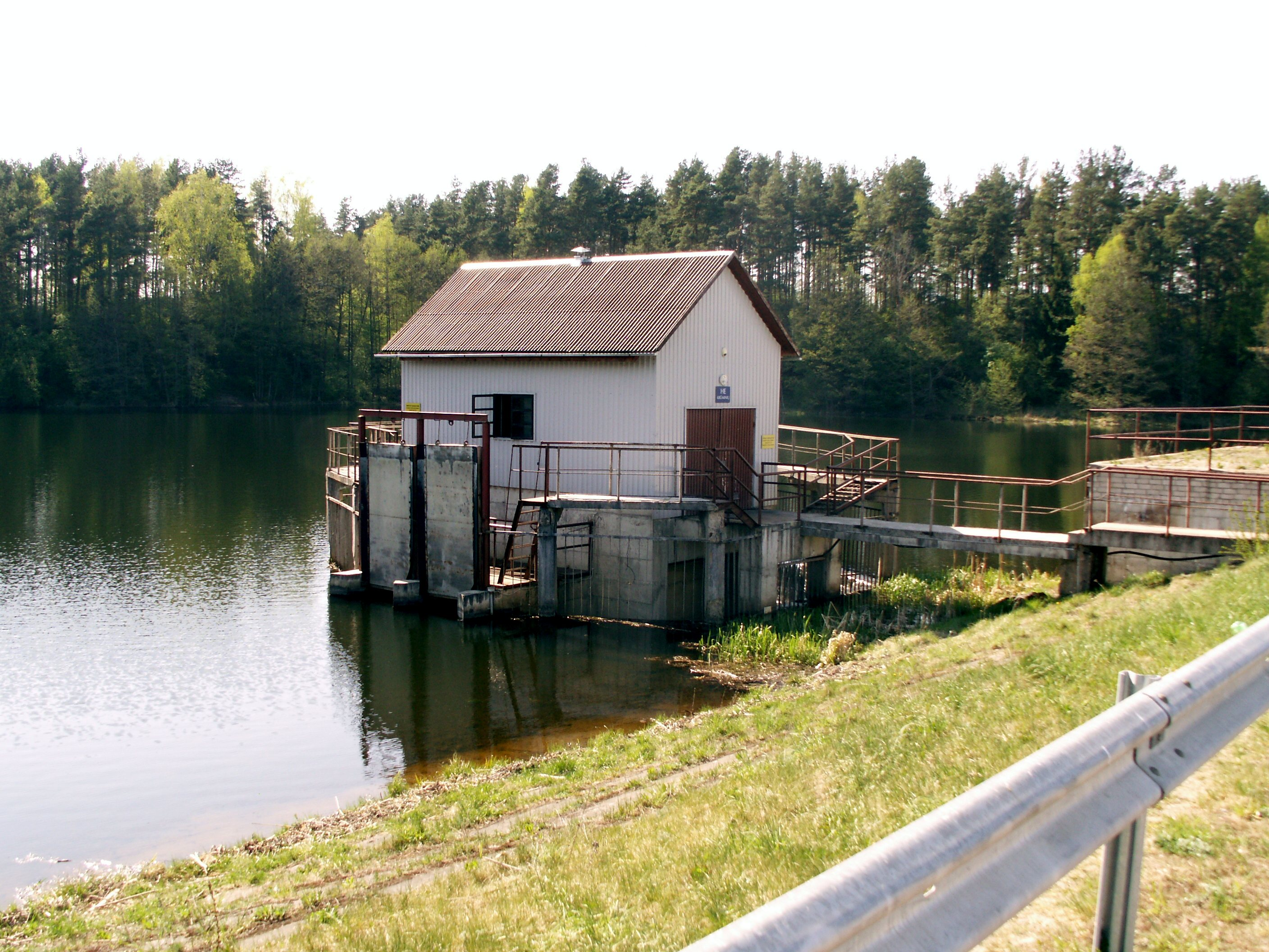 Krūminių hydroelectric power plant, Varėna district, Lithuania